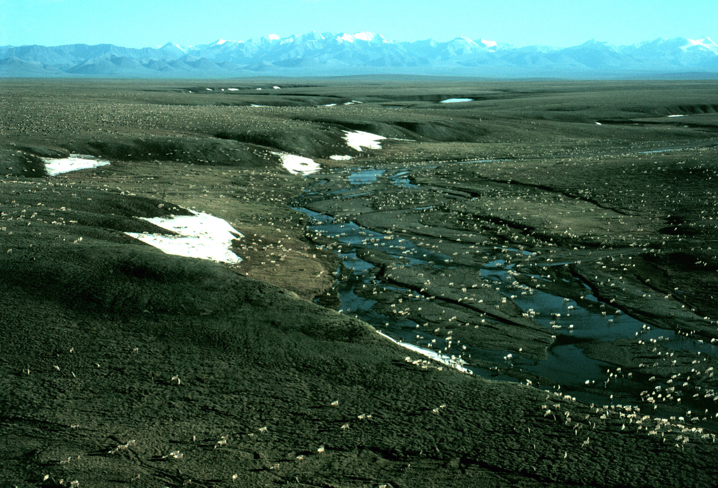 Porcupine caribou herd in 1002 Area, Arctic National Wildlife Refuge